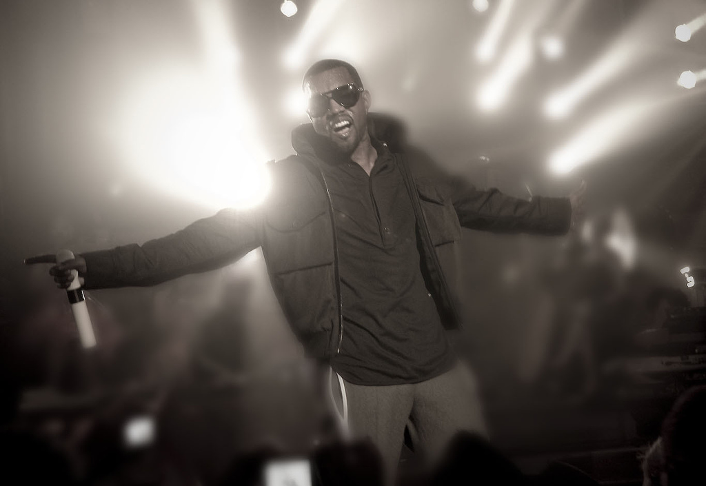 Kanye West performing at Westminster Central Hall on August 20, 2007 in London, England.